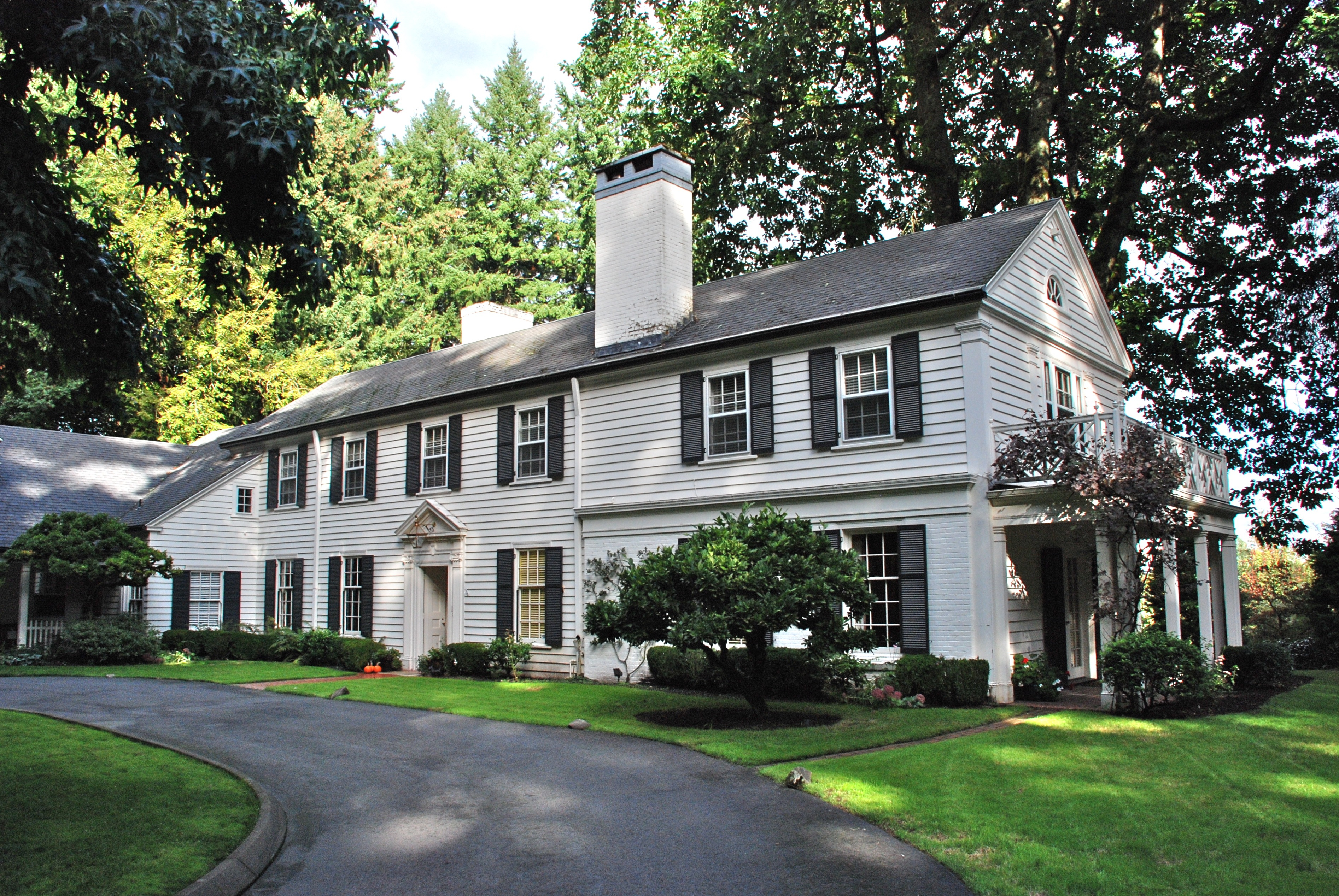 The Donald and Ruth McGraw House, located in the Portland (Oregon) metropolitan area and just south of the city of Portland, is listed on the U.S. National Register of Historic Places.